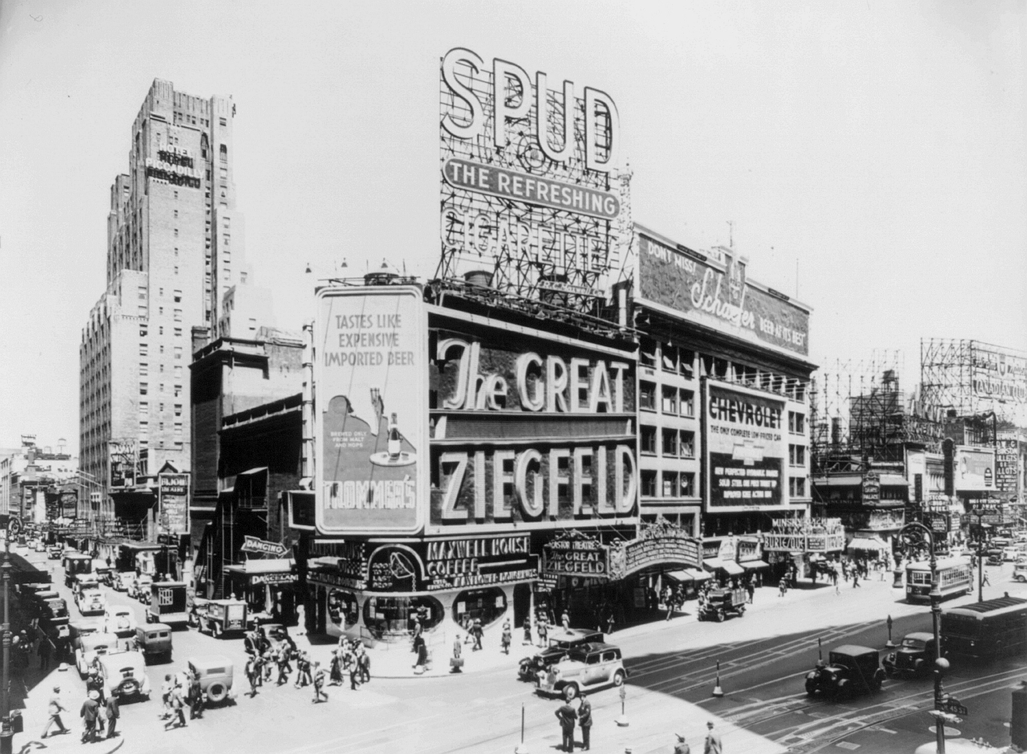 Left center: The Great Ziegfeld, Astor Theatre, Broadway & 45th St., New York City. Right center: The Gaiety Building (6-story office building), including entrance to Minsky's Burlesque Theatre (formerly the Gaiety Theatre)